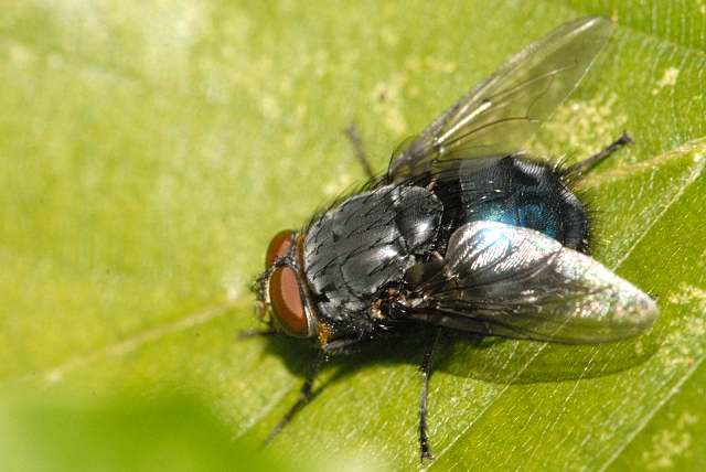 Protocalliphora azurea from Commanster, Belgian High Ardennes .